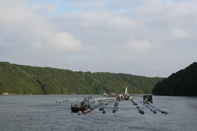 Mussel farm on the River Fal Situated just below the King Harry Ferry.